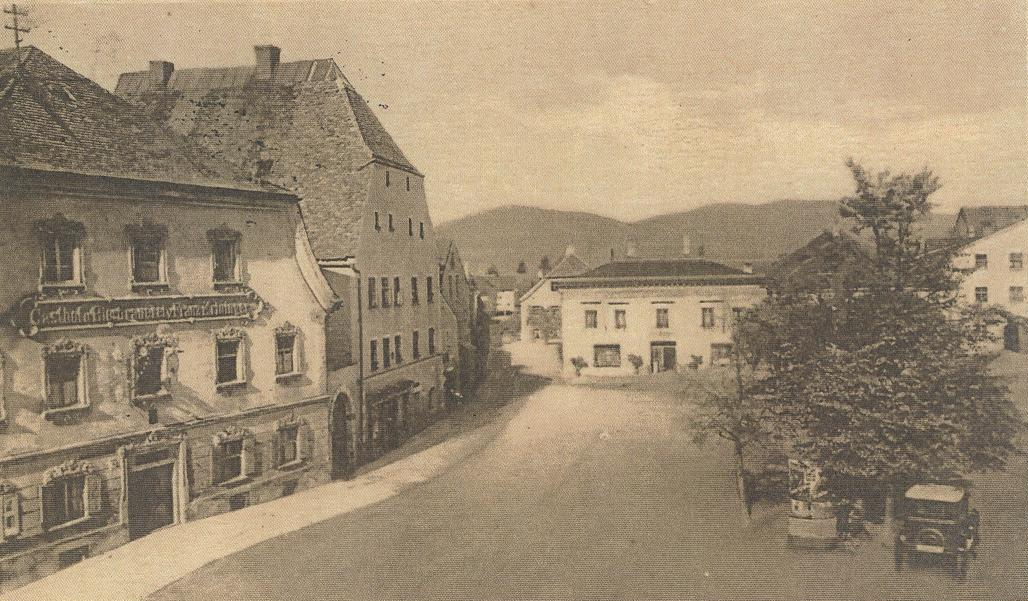 The center of Hengersberg in the early 20. Century.